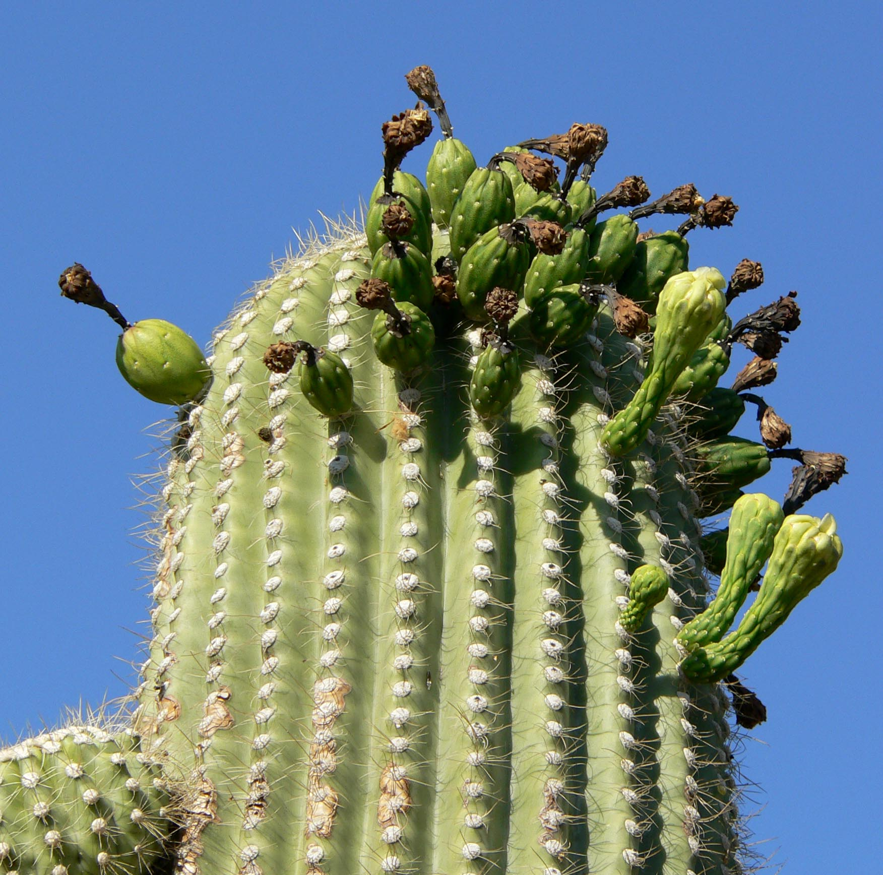 Photo of Carnegiea gigantea fruits at the Springs Preserve garden in Las Vegas